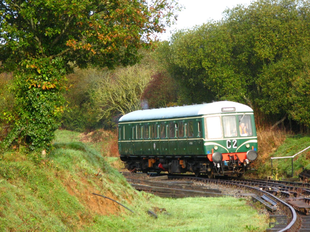 Railcar 55000 arriving at Totnes Littlehempston station with a service from Buckfastleigh on the South Devon Railway.